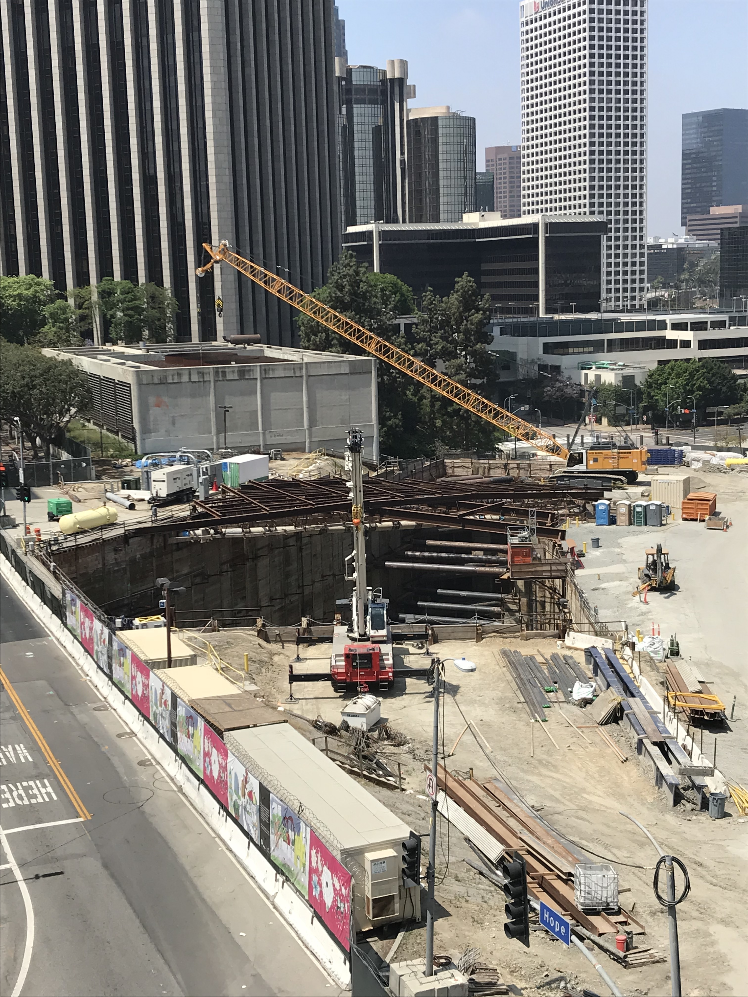 Grand Av Arts/Bunker Hill station under construction in Los Angeles, May 2018, as seen from atop the Walt Disney Concert Hall.